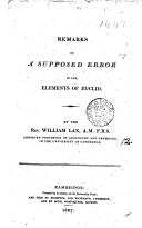 The cover of a book by William Lax about Euclid.